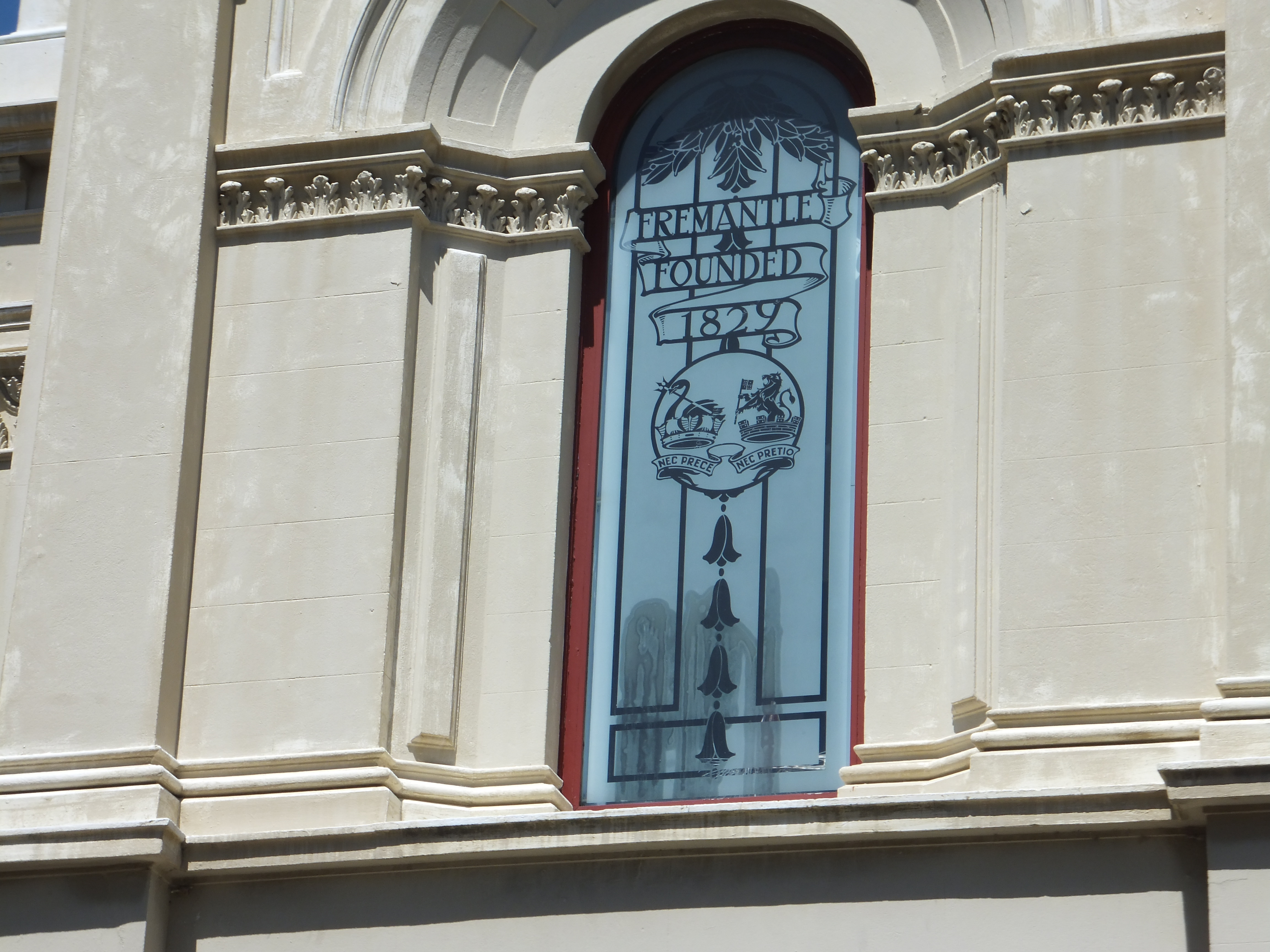 Window on Fremantle Town Hall